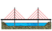 Diagram of a cable-stayed bridge.